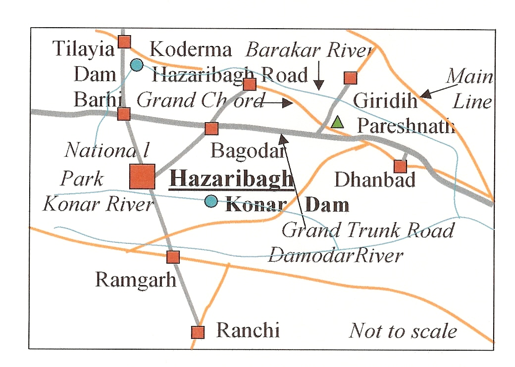 Own creation